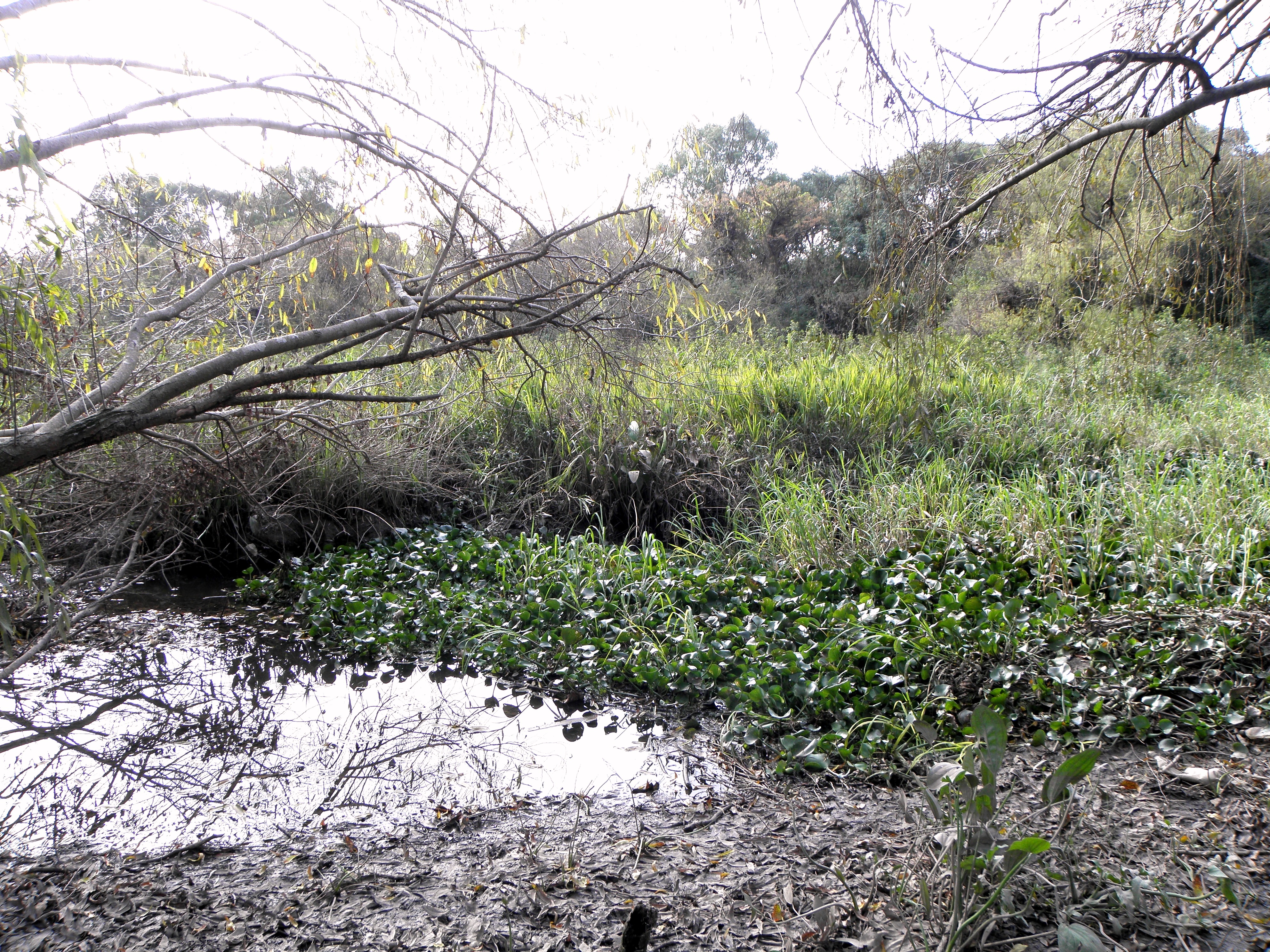 Ciudad Universitaria Ecological Reserve, on the coast of La Plata River, in the Buenos Aires city.